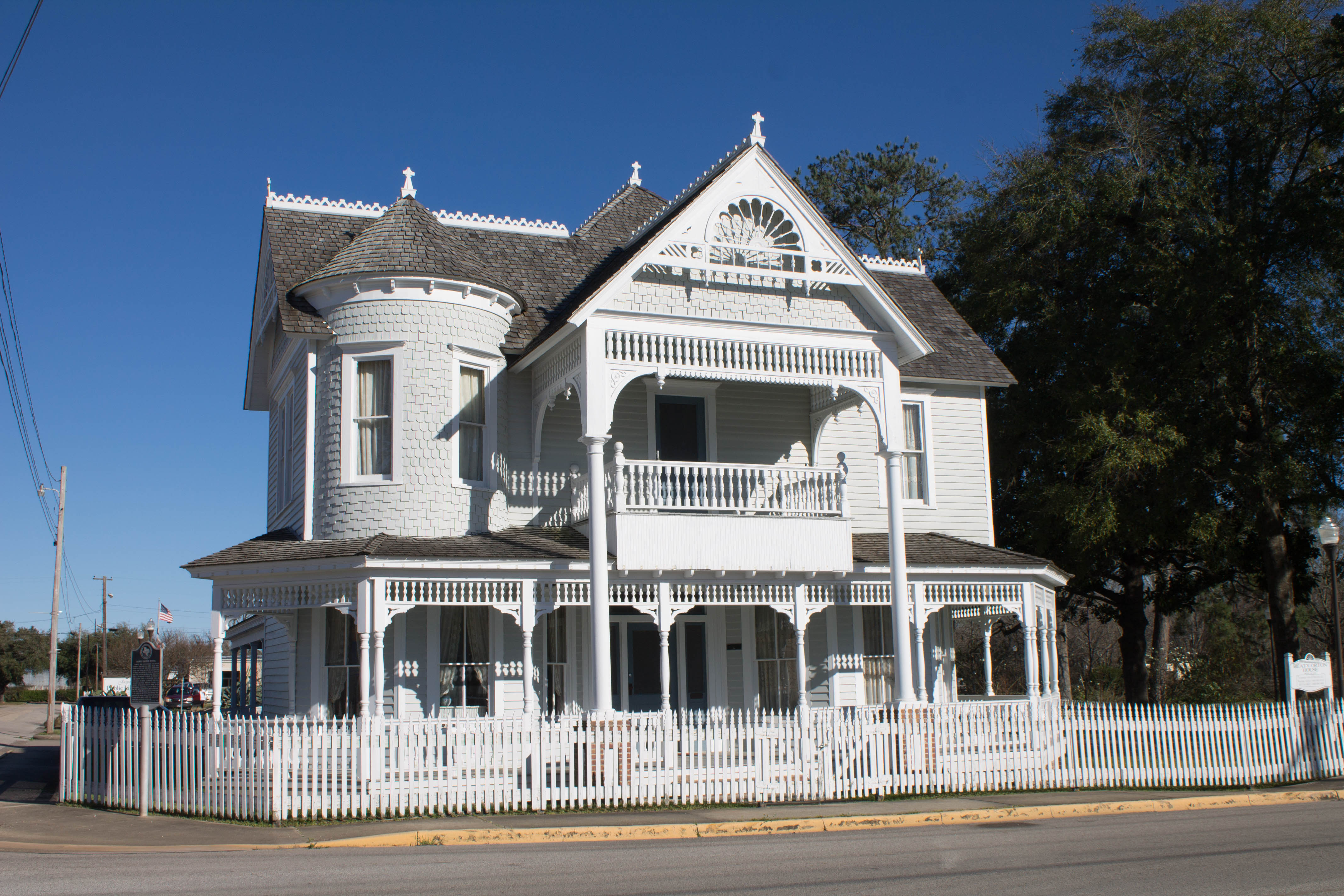 Blake-Beaty-Orton House in Jasper, Texas